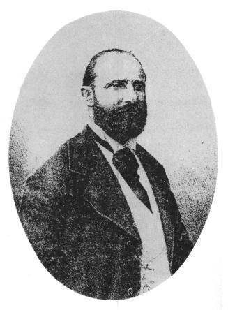 Morelli Salvatore